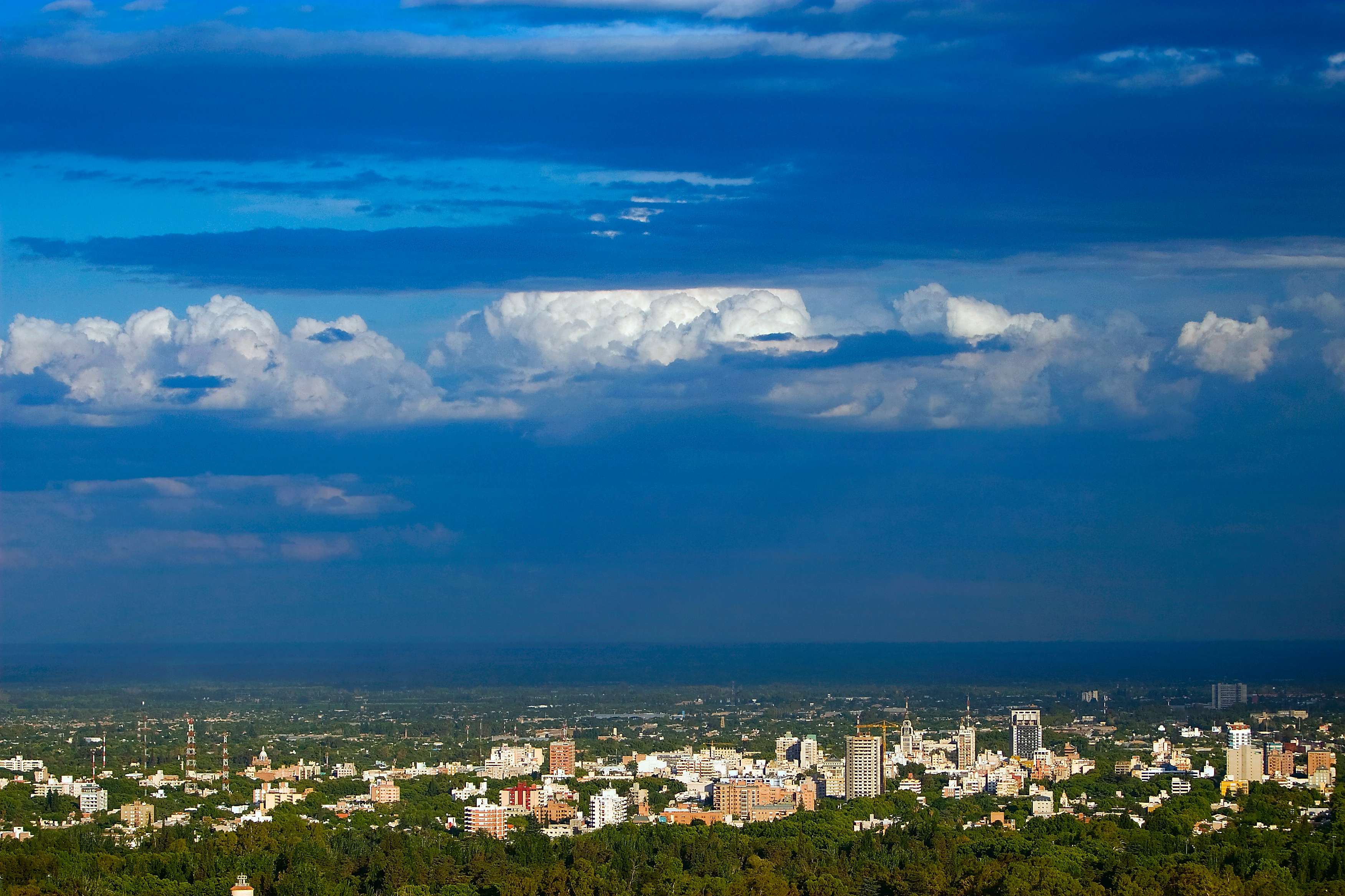 View from Cerro De La Gloria looking east towards Mendoza, Argentina